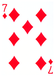 A Playing card: seven of diamonds , from poker deck, in small png format.